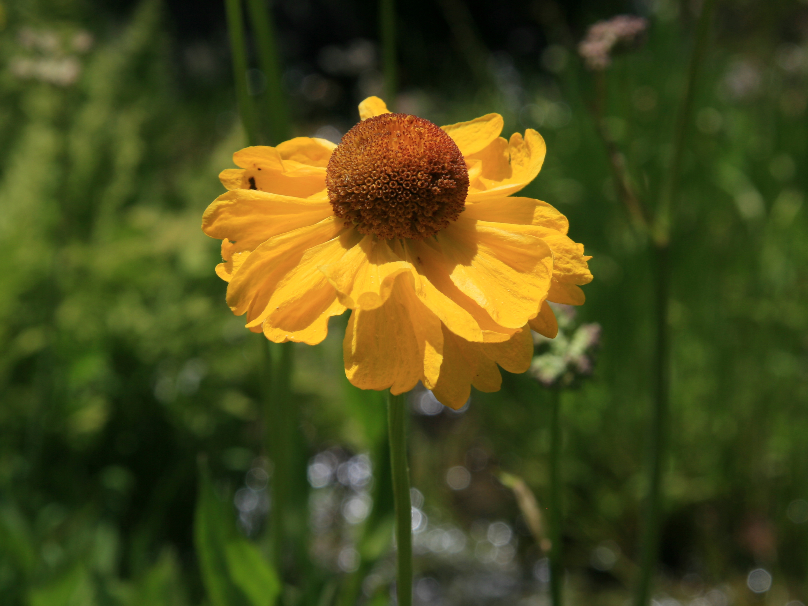 Closeup of Helenium bigelovii (Bigelow's sneezeweed) flowerhead. At about 8500ft in a meadow along the Timber Gap trail N of Mineral King, Sequoia National Park, California.